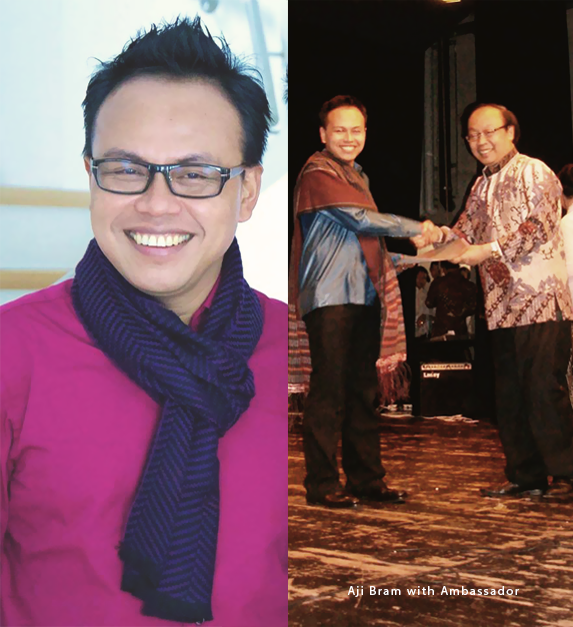 Founder IFBF Aji Bräm